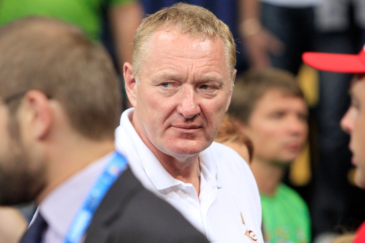 Businessman Tautvydas Barštys